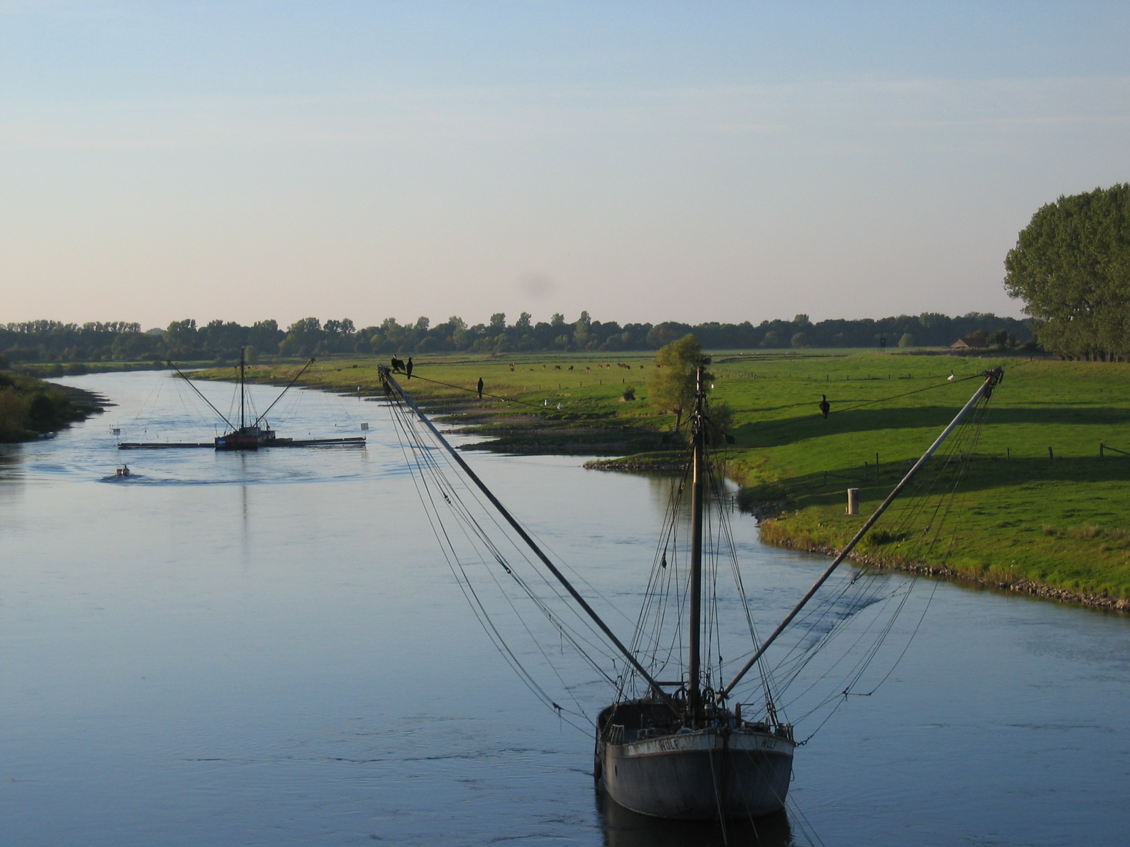 Two eel fishing boats at Weser River in Petershagen, District of Minden-Lübbecke, North Rhine-Westphalia, Germany.